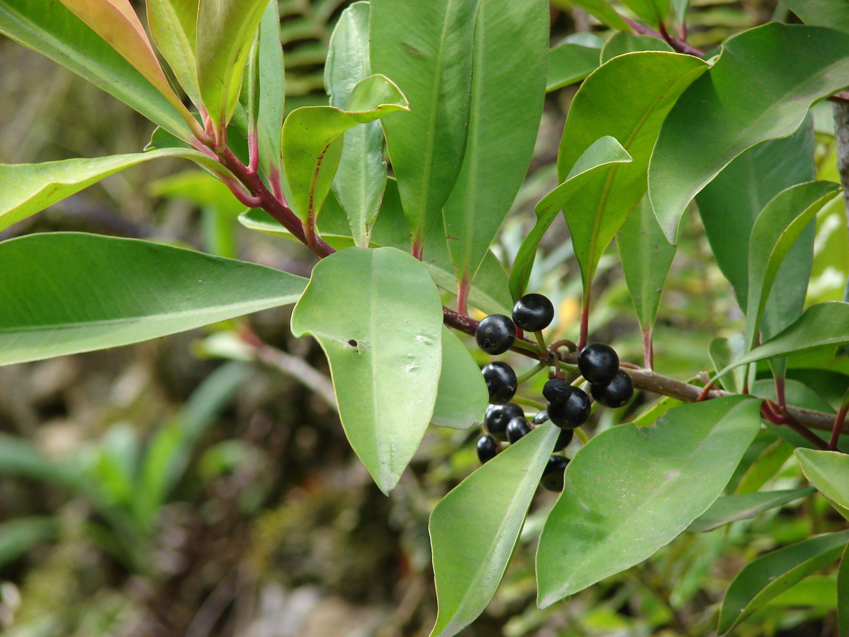 Ardisia elliptica (leaves and fruit). Location: Maui, Hana Hwy